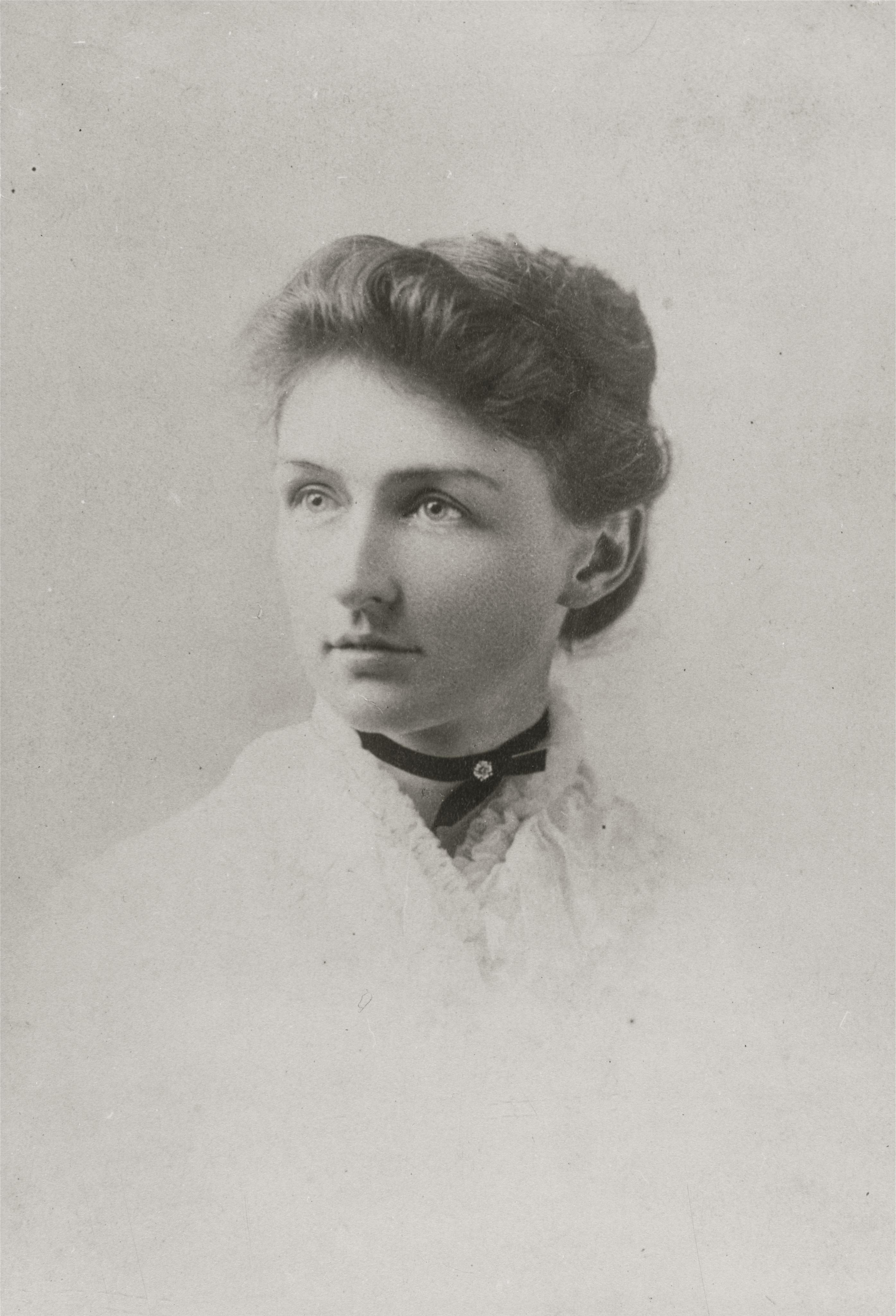 Portrait of Annie Jump Cannon, ca. 1895-1897. View catalog record Questions? Ask a Schlesinger Librarian